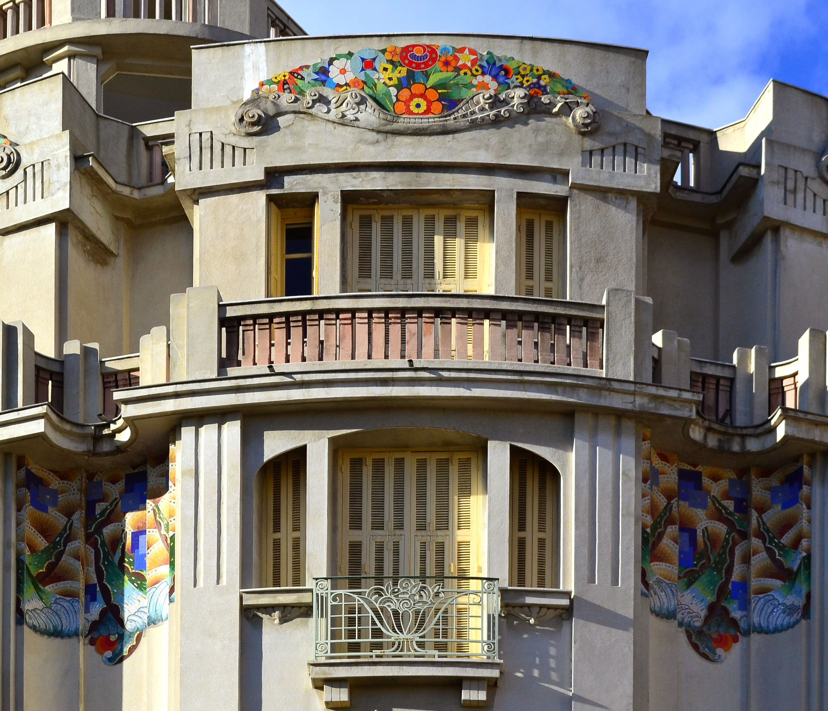 La Rotonde